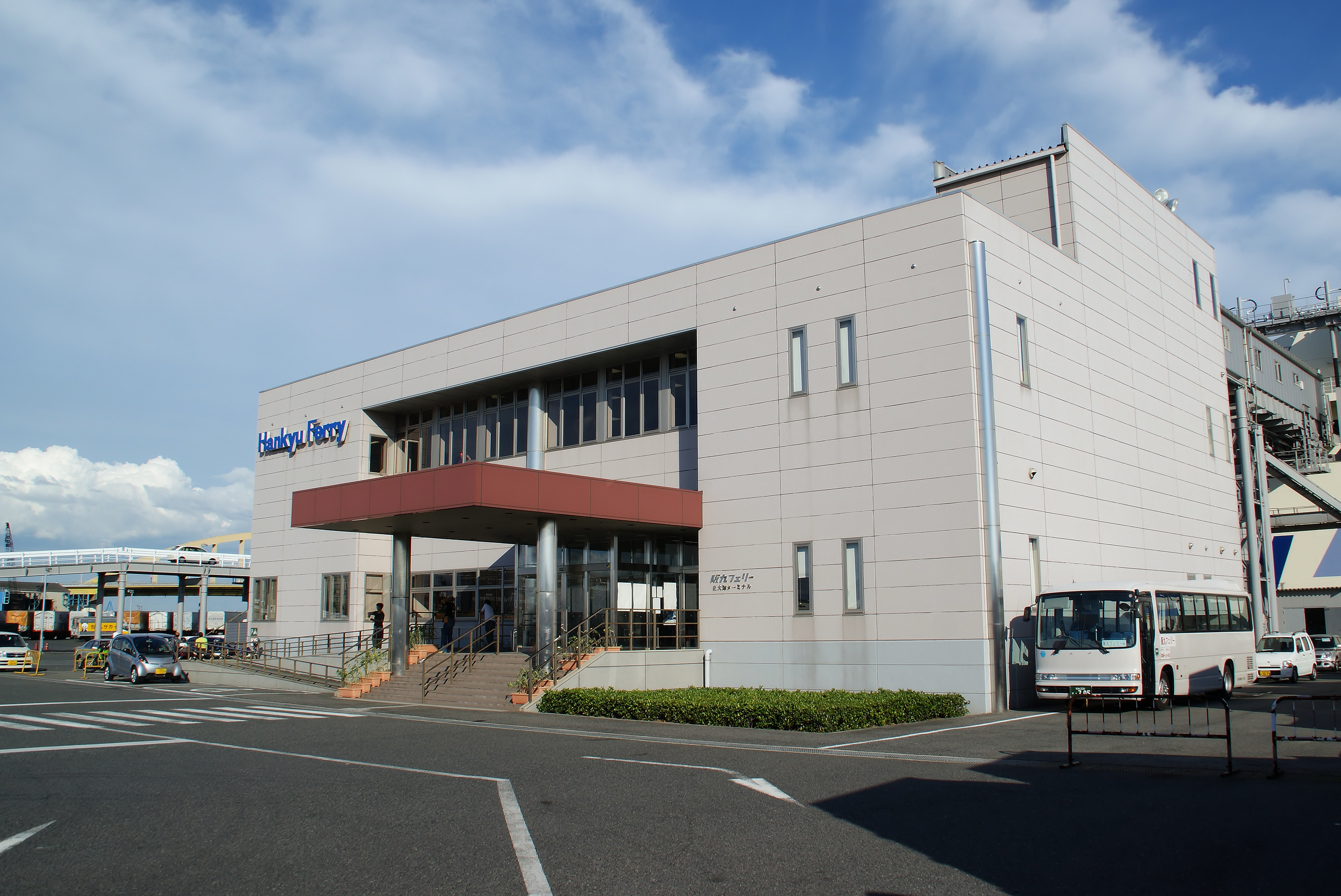 Izumiotsu Terminal of Hankyu Ferry. (Izumiotsu City, Osaka Prefecture, Japan)